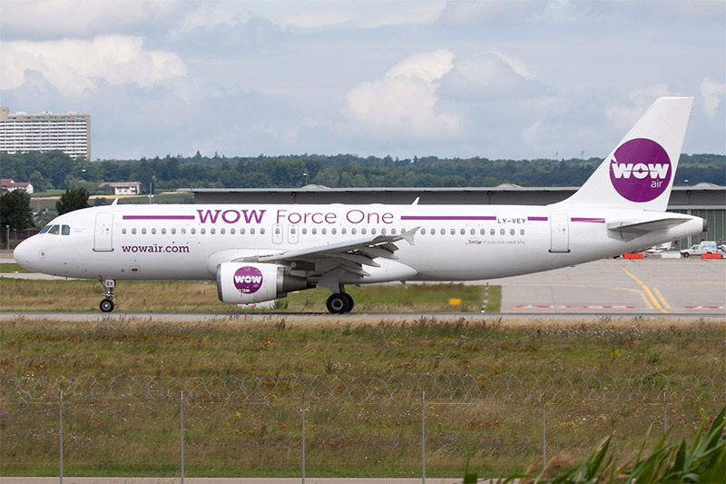 WOW Air Airbus A320 LY-VEY (Stuttgart/STR)